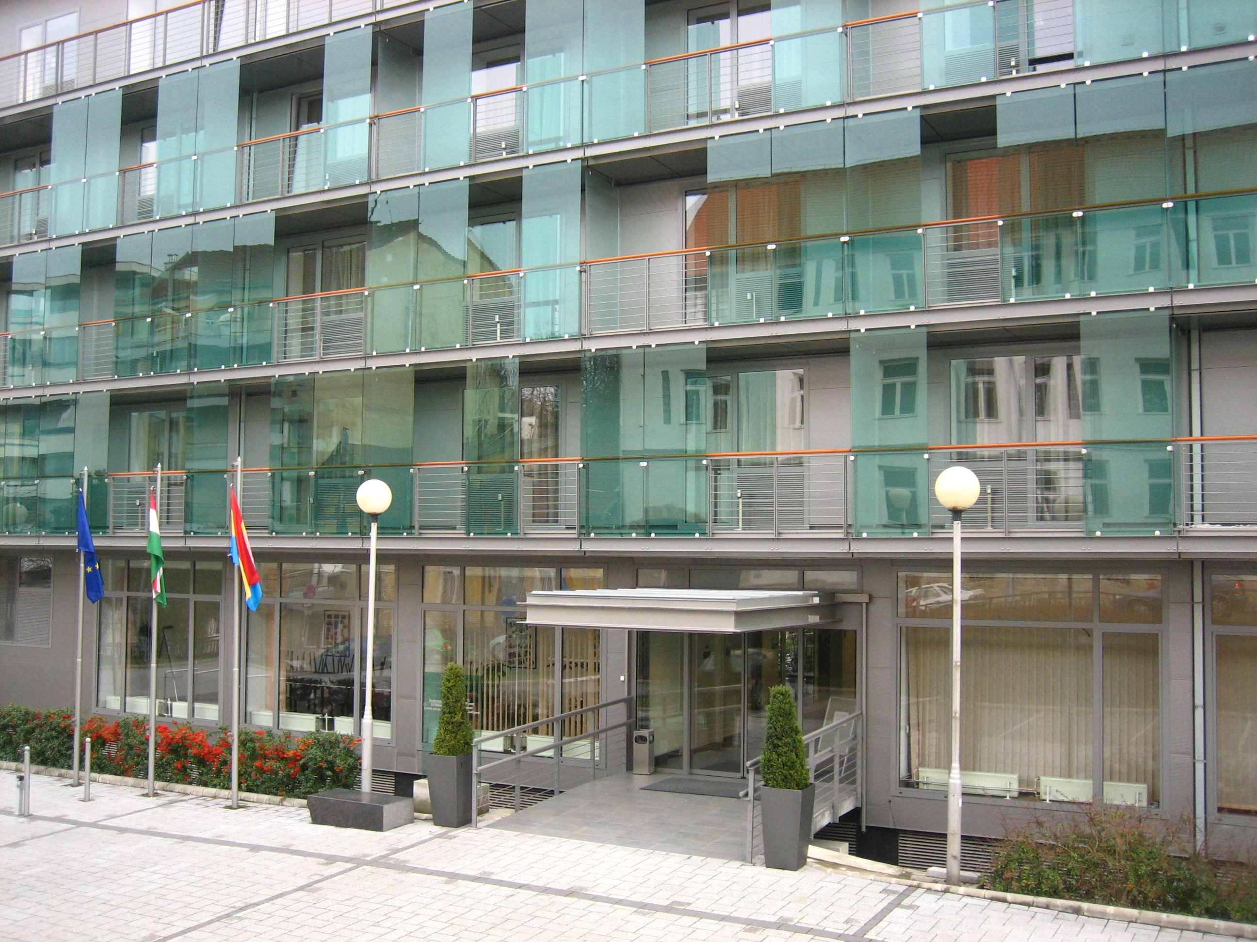 Entrance of the European Youth Center in Budapest, Hungary.